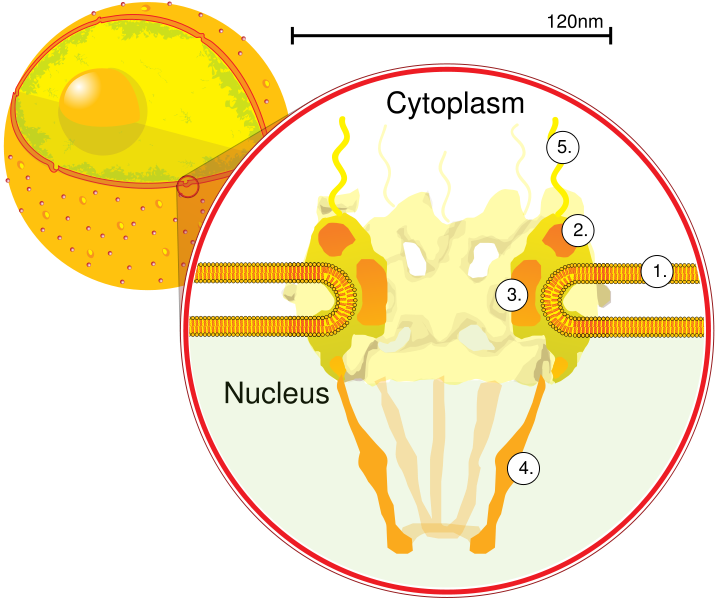 Recropped version of Image:NuclearPore.svg. Original Artwork created for Wikipedia by Mike Jones. Created using Adobe Illustrator. Entitled "Side-view Diagram of a Nuclear Pore." Accuracy was the aim, but artistic decisions were made to aid asthetics. Labels: 1.)Nuclear Envelope 2.)Outer Ring 3.)Spokes 4.)Basket 5.)Filaments. Original image of the Nucleus was created by User:LadyofHats.